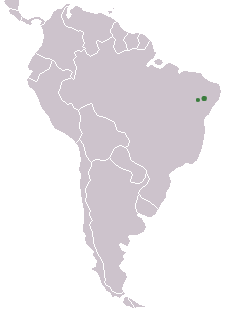 modified from: (Blank political map of South America cropped from a blank political world map image. The world map was released in the public domain by the user who created it.)